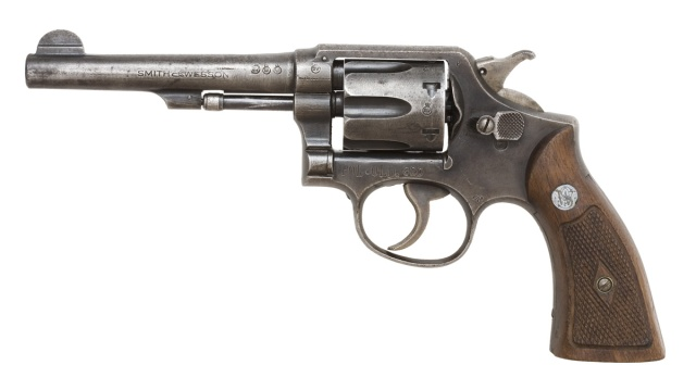 Smith & Wession M&P Victory model revolver. (Photo by Oleg Volk)